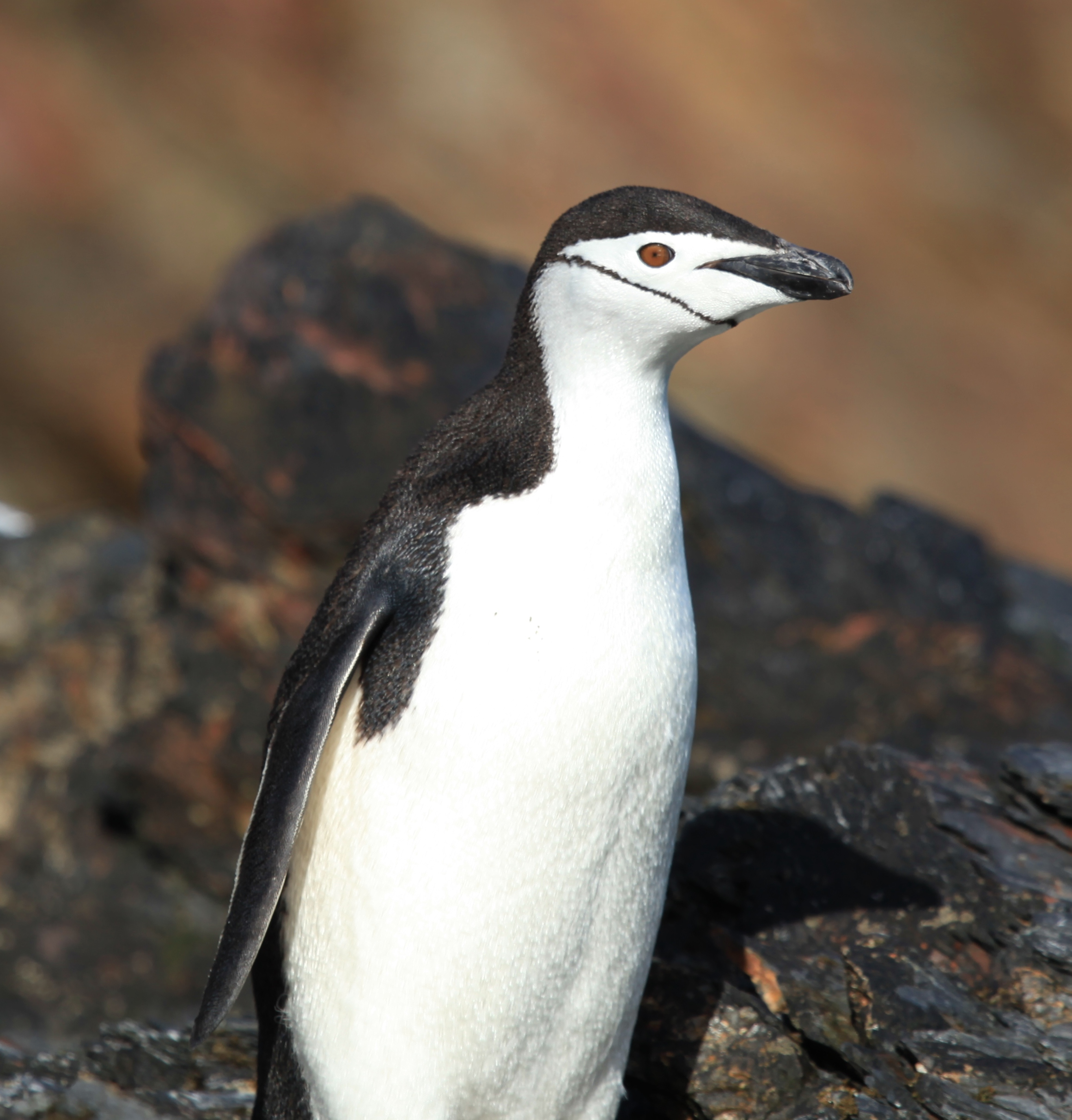 Chinstrap Penguin at Cooper Bay, South Georgia